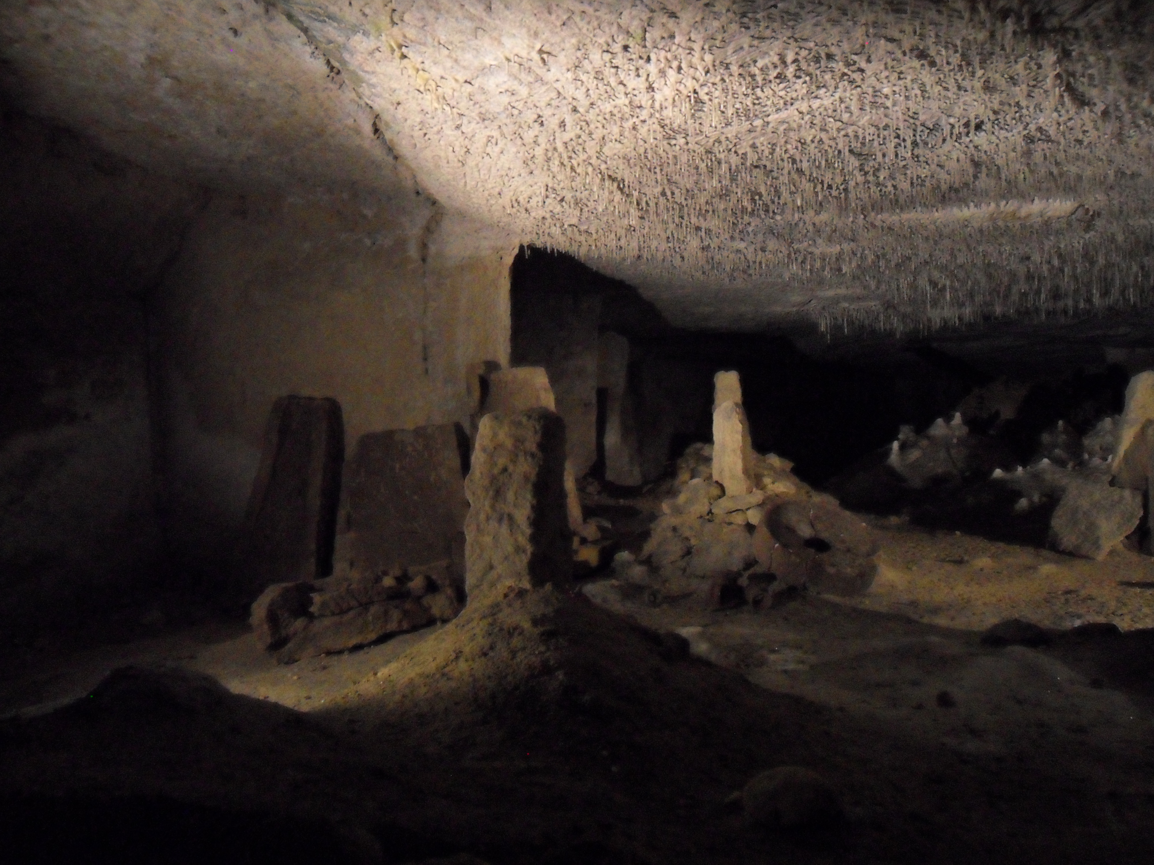 A Gallo-Roman cemetery at Les Grottes Pétrifiantes de Savonnières, in the first grotto. Nine tombstones were discovered in this room, of which seven are here and two at the Louvre. There are fragments of two sarcophagi found at two meters in depth. Stalactites can be seen on the ceiling.